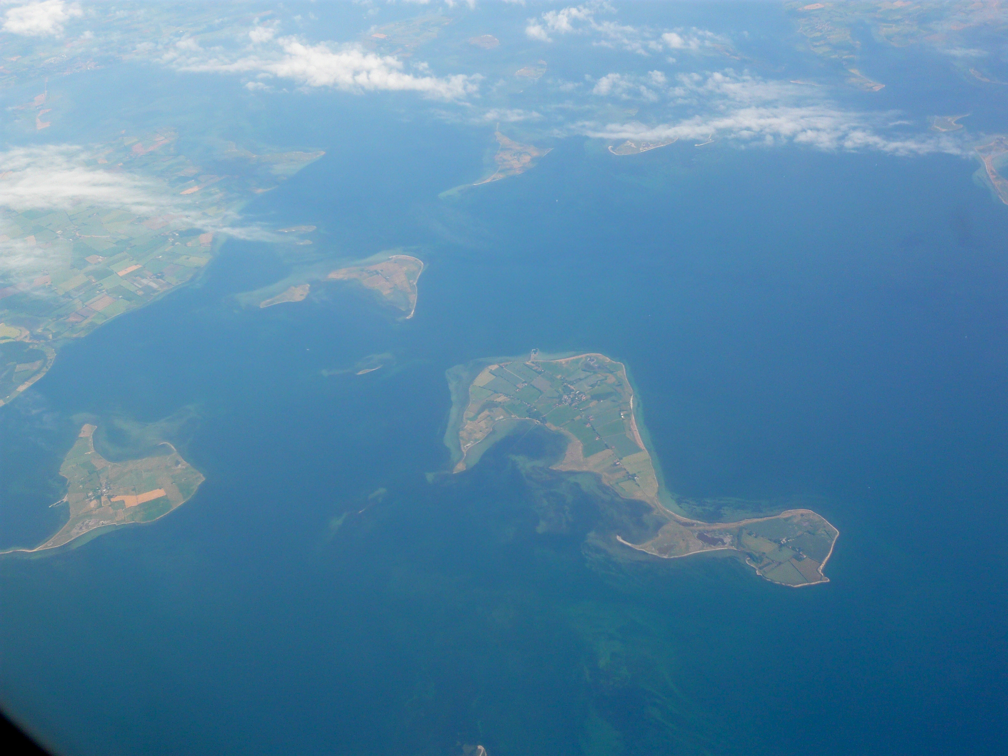 Drejø, Hjortø, Sakrø, Islands south of Funen, DenmarkLocation: Sydfynske Øhav